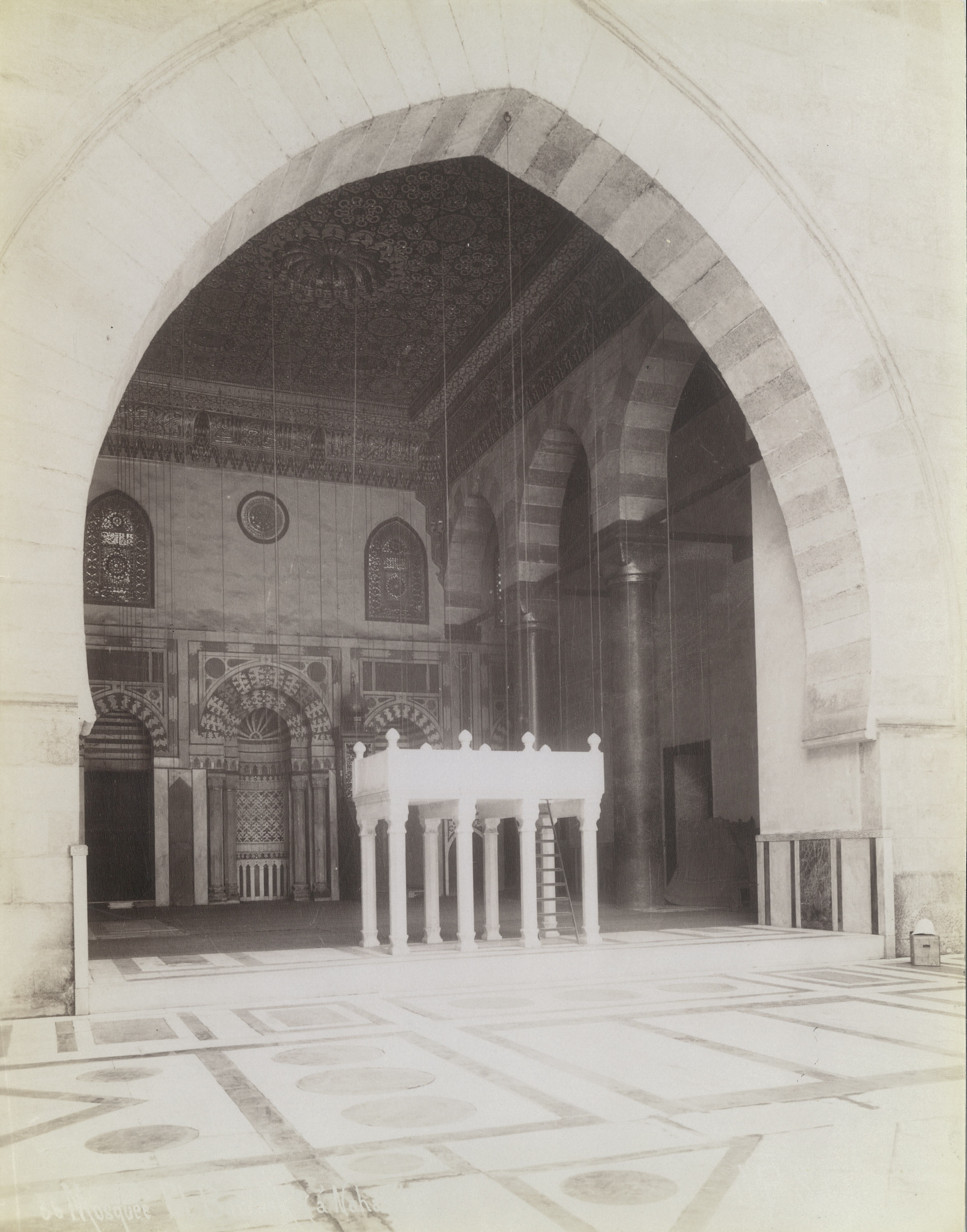 Pulpit in Sultan Barquq’s mosque. Analogical reconstruction by Herz, because no information was available on its original shape. Period photograph.